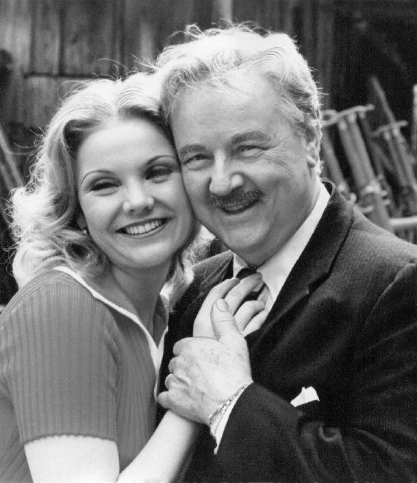 Publicity photo of Erika Slezak and Walter Slezak in One Life to Live (1974)